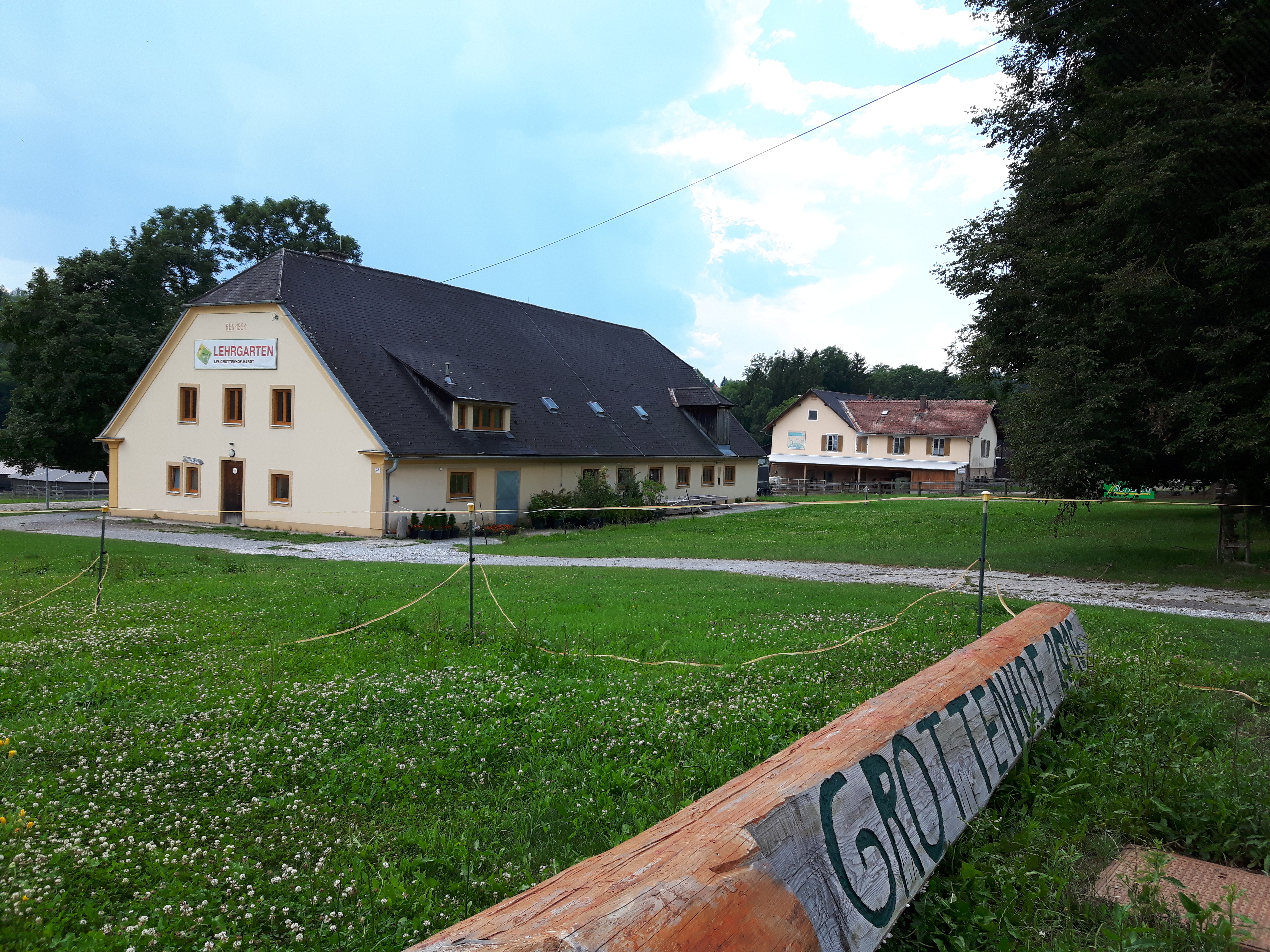 The old stable of the agricultural school Grottenhof-Hardt